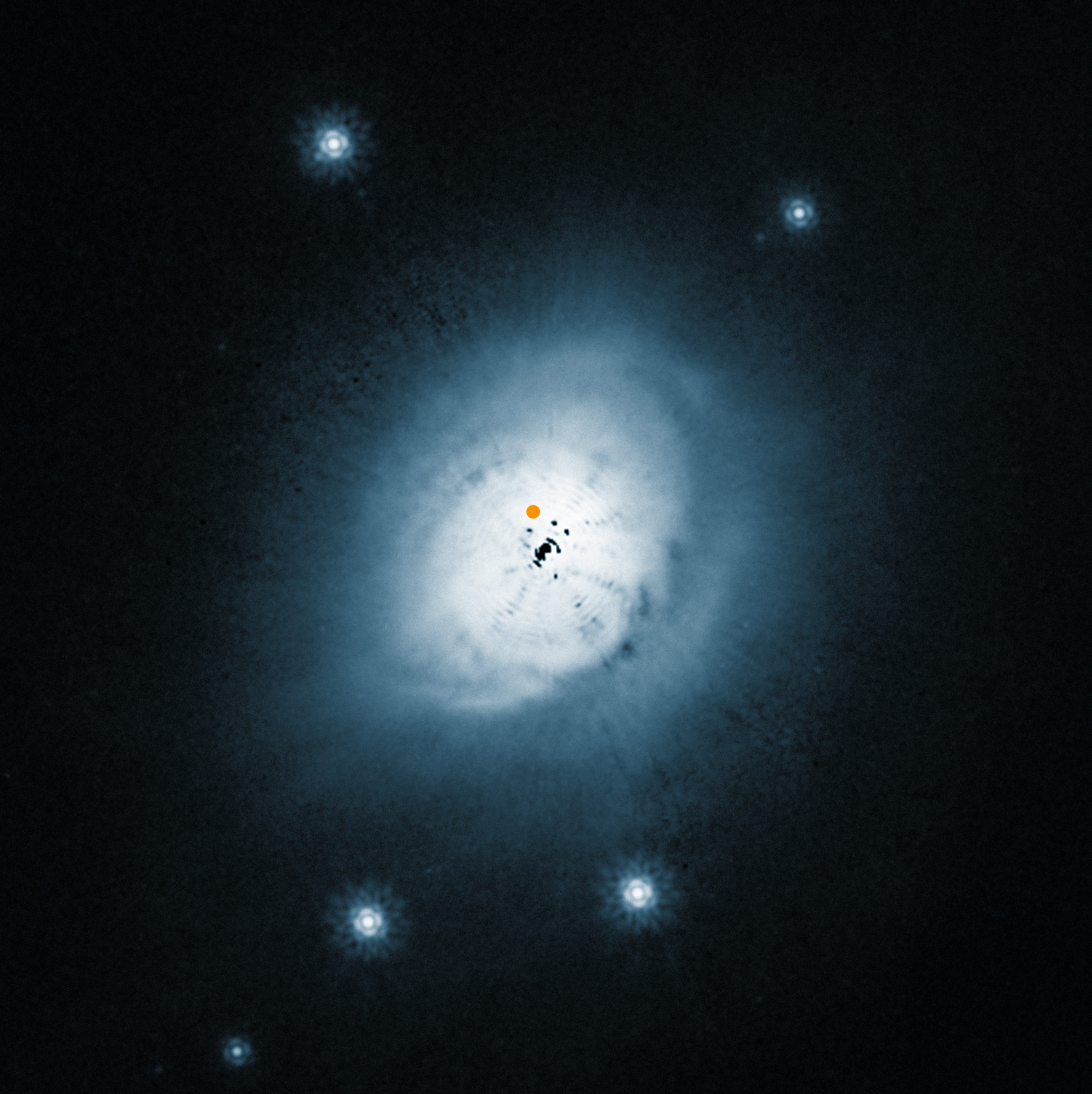 This image from the NASA/ESA Hubble Space Telescope shows a visible light view of the outer dust around the young star HD 100546. The position of the newly discovered protoplanet is marked with an orange spot. The inner part of this picture is dominated by artifacts from the brilliant central star, which has been digitally subtracted, and the black blobs are not real.